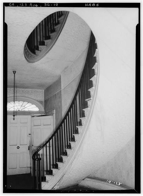 Historic American Buildings Survey Lawrence Bradley - Photographer April, 18, 1936 FOOT OF STAIRS - Ware-Sibley-Clark House, 506 Telfair Street, Augusta, Richmond County, GA